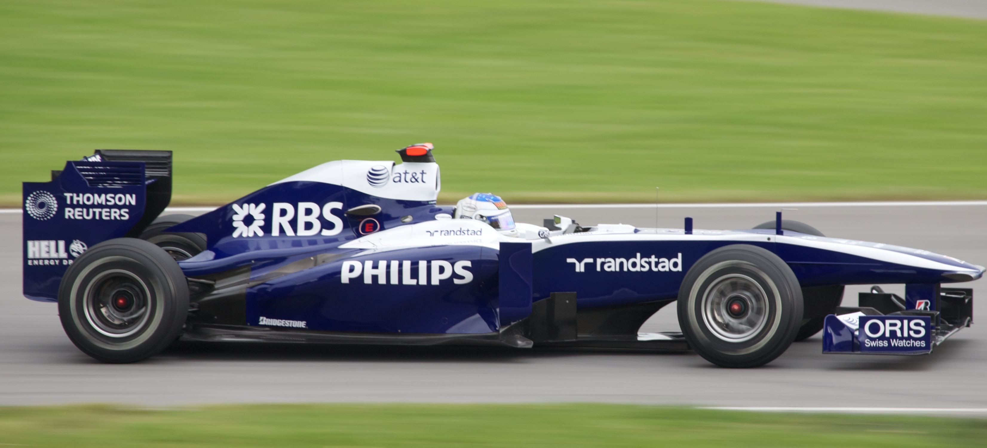 A panning motion shot of Rubens Barrichello.